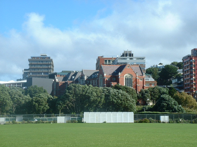 Victoria University, Kelburn, Wellington, New Zealand.